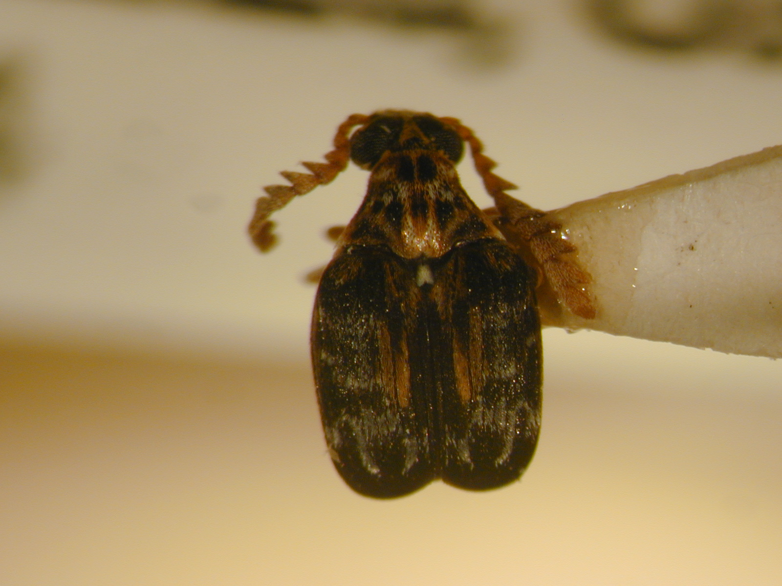 Crotalaria sp. (Callosobruchus pulcher ex seeds). Location: Oahu, Waimanalo